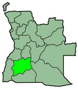 A map from province Huila, Angola